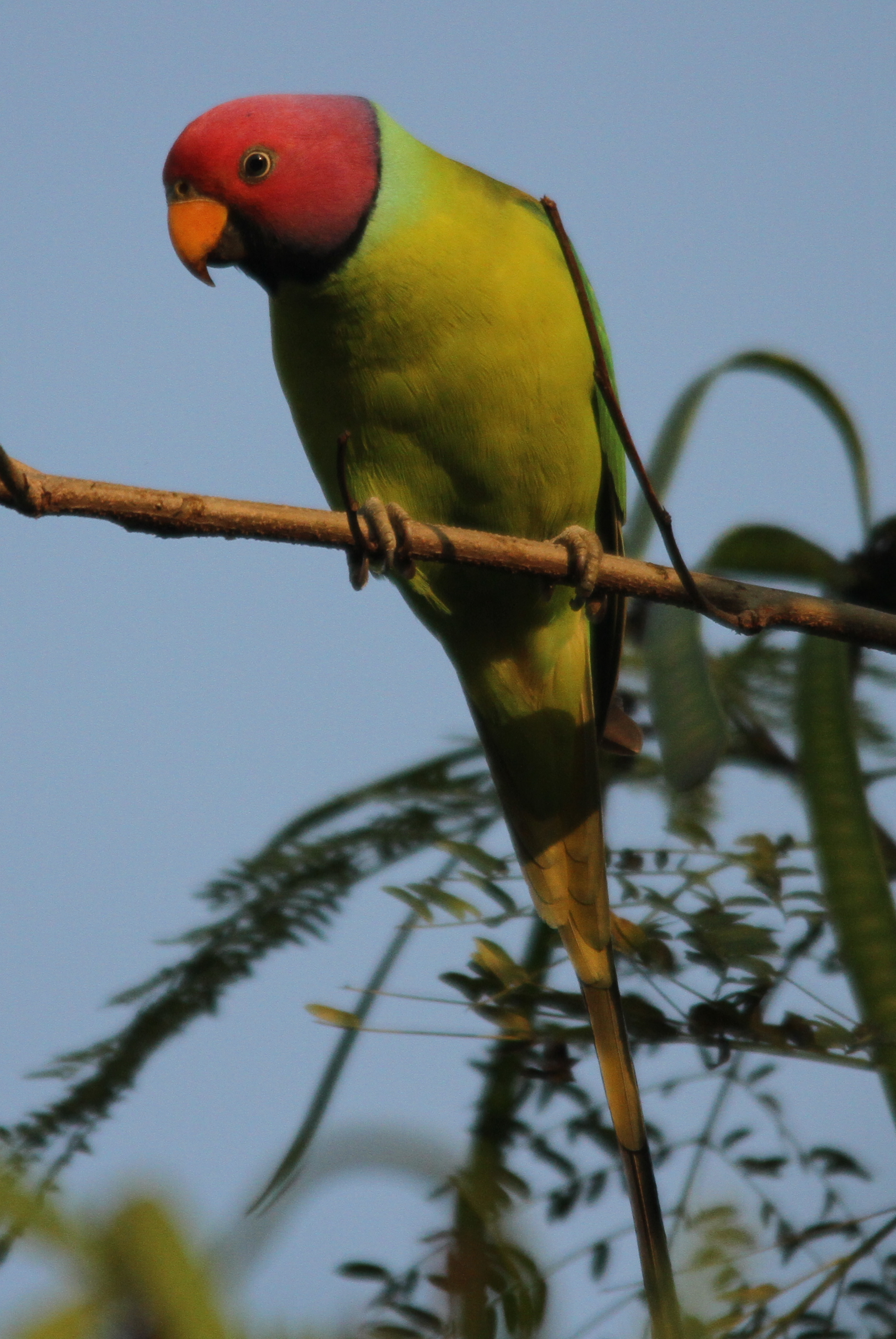 birds of India